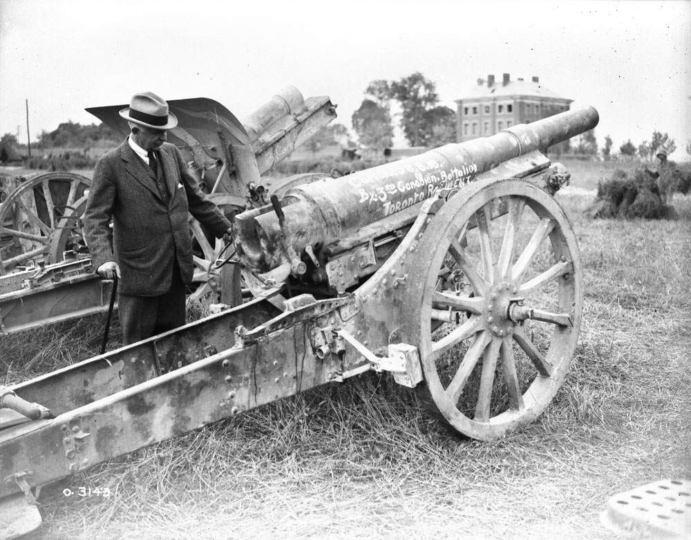 Captured German 10 cm K04 gun. Title:Sir Edward Kemp interested in captured guns. Advance East of Arras. August, 1918.